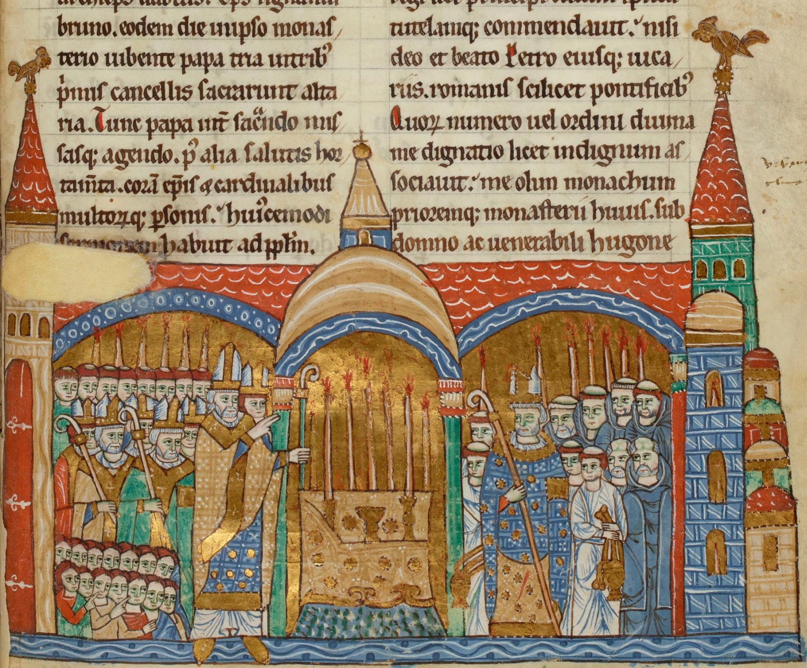 Concecration of the high altar of the Cluny abbey church by Pope Urban II, 25 October 1095. Miscellanea secundum usum ordinis Cluniacensis . 1190, BNF, Lat. 17716, fol. 91